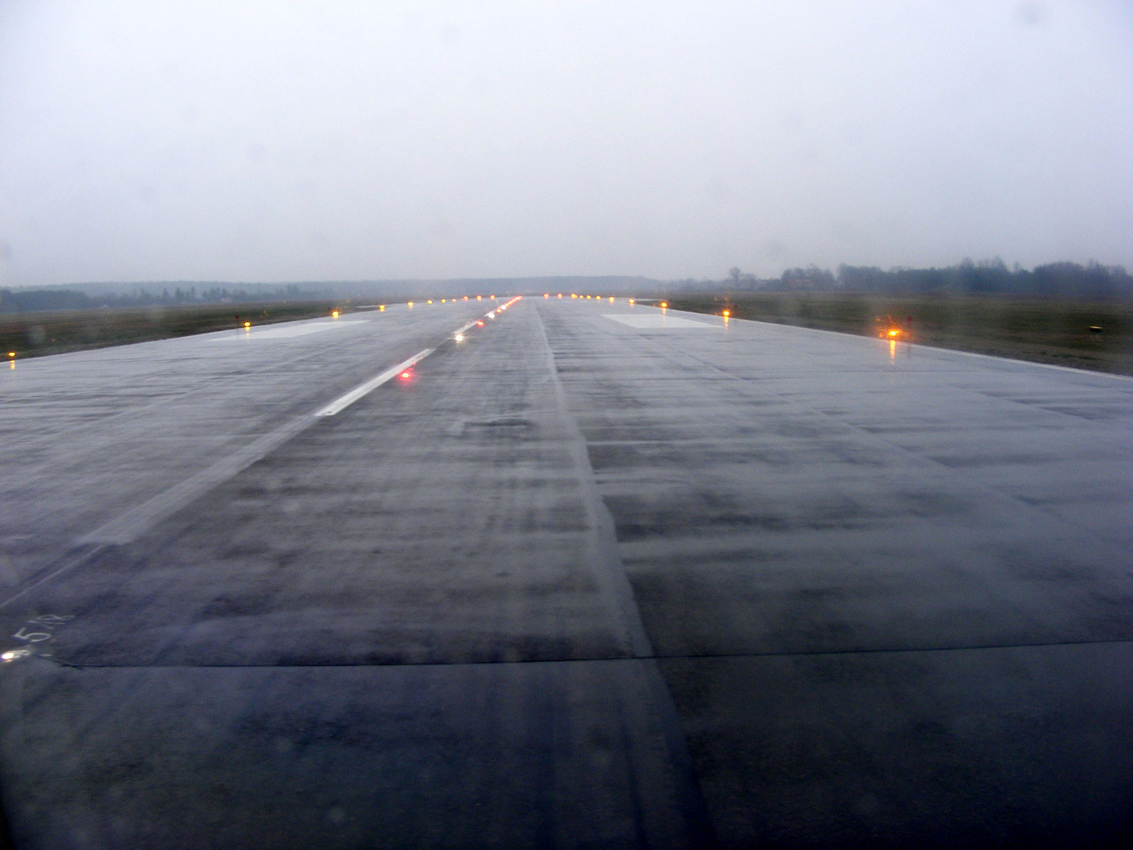 Palanga, Lithuania airport runway 01/19 as seen from the South end. LIH (high intensity) runway lighting installed in autumn 2007